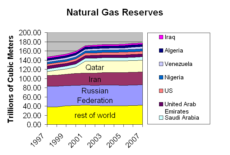 Natural Gas Reserves comes from the data in the BP Statistical Review of World Energy June 2008 [1]